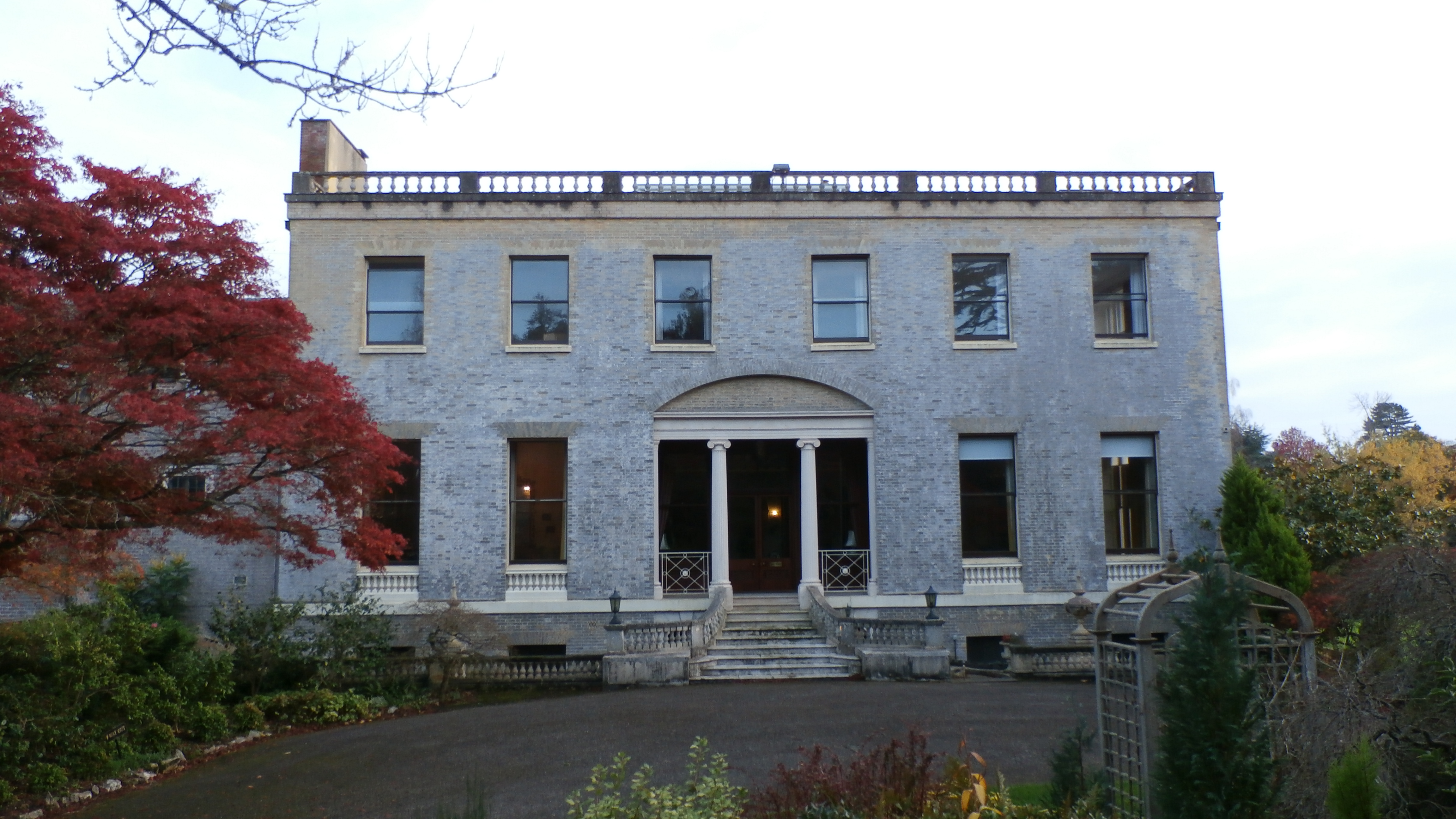 Nutwell Court in the parish of Woodbury, Devon, rebuilt in 1799. View of north front